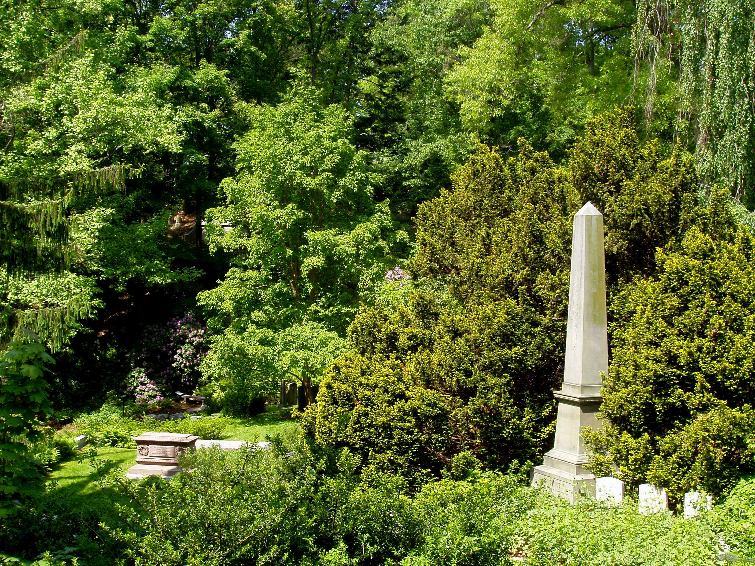 Mount Auburn Cemetery, Cambridge, MA, USA. View looking down on the Hunnewell family obelisk. Photograph taken by me, June 4, 2005.